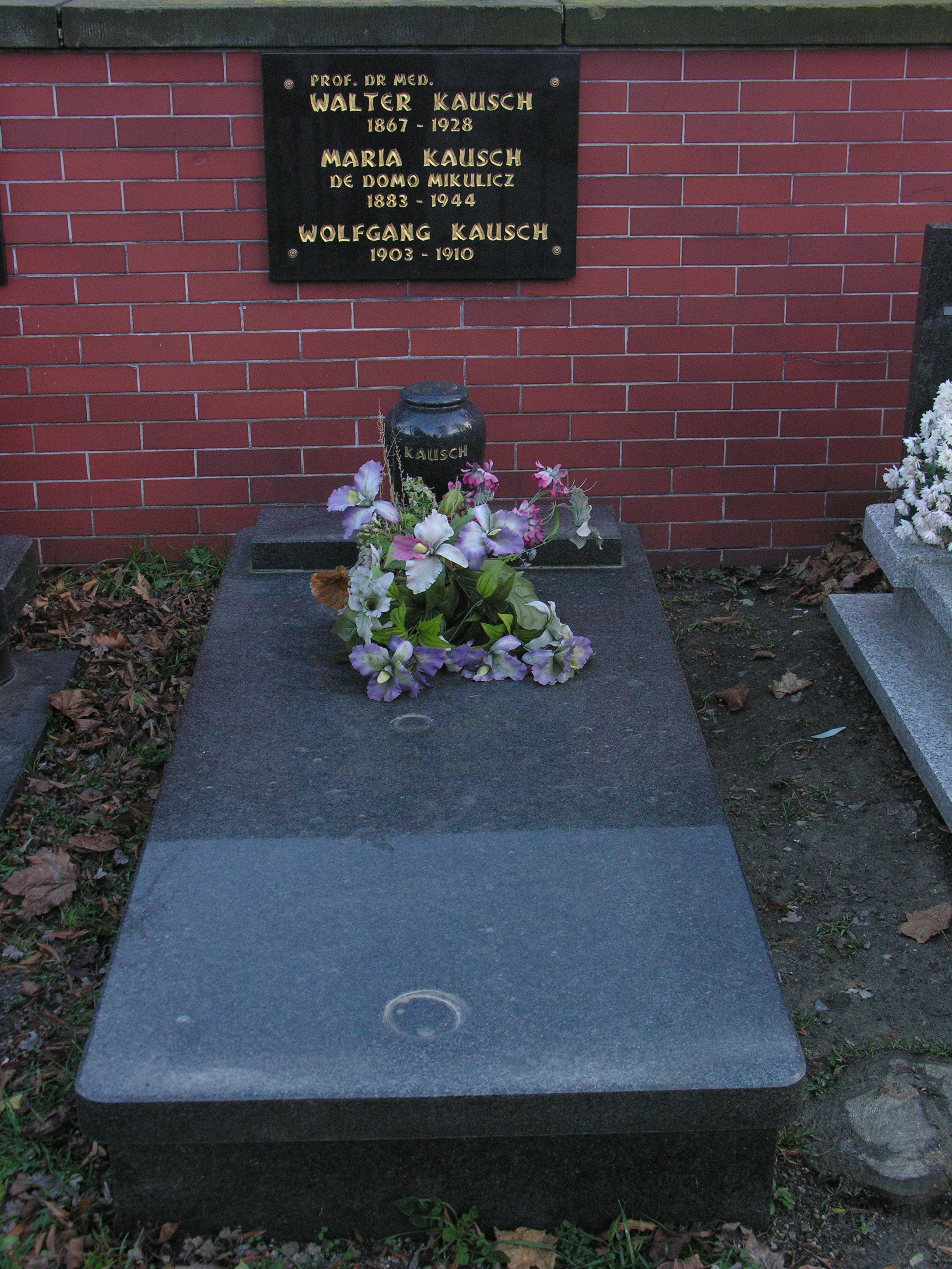 Grób Walthera Kauscha w Świebodzicach